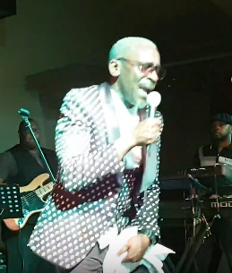 photograph of Junior Giscombe performing mama used to say